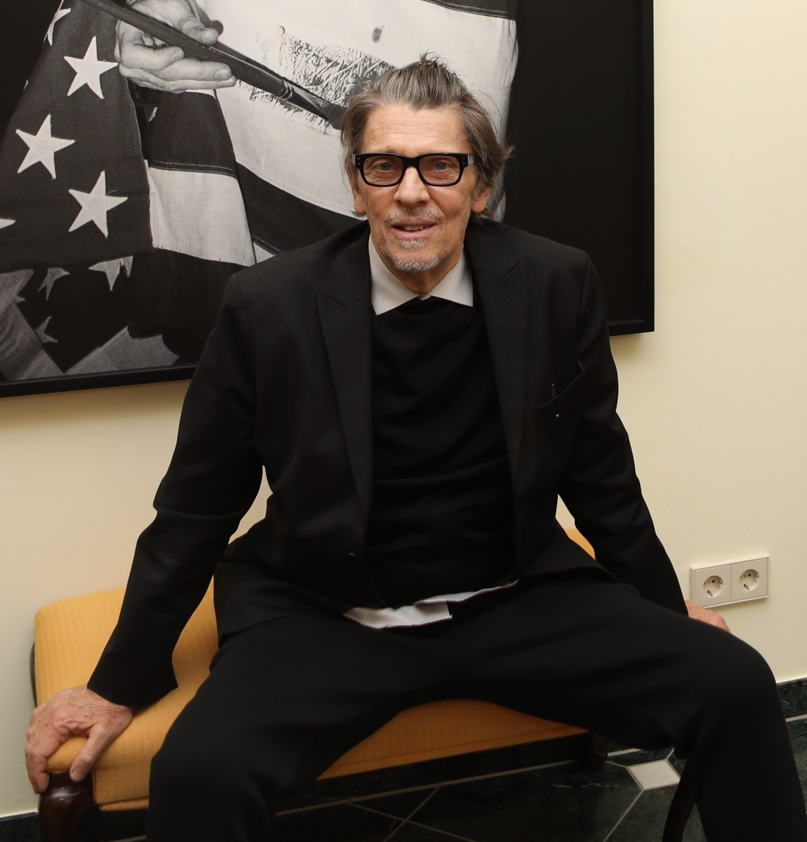 Christopher Makos in Berlin, November 2019 (crop)